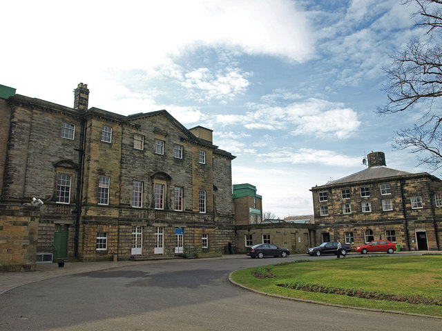 Racecourse Buildings, Gosforth Park Showing some of the older buildings at Newcastle Racecourse.